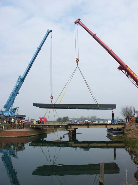 The old bridge is removed, while the new bridge is brought into place, Bethells Bridge, Hempholme, East Riding of Yorkshire, England (Michael Askin)